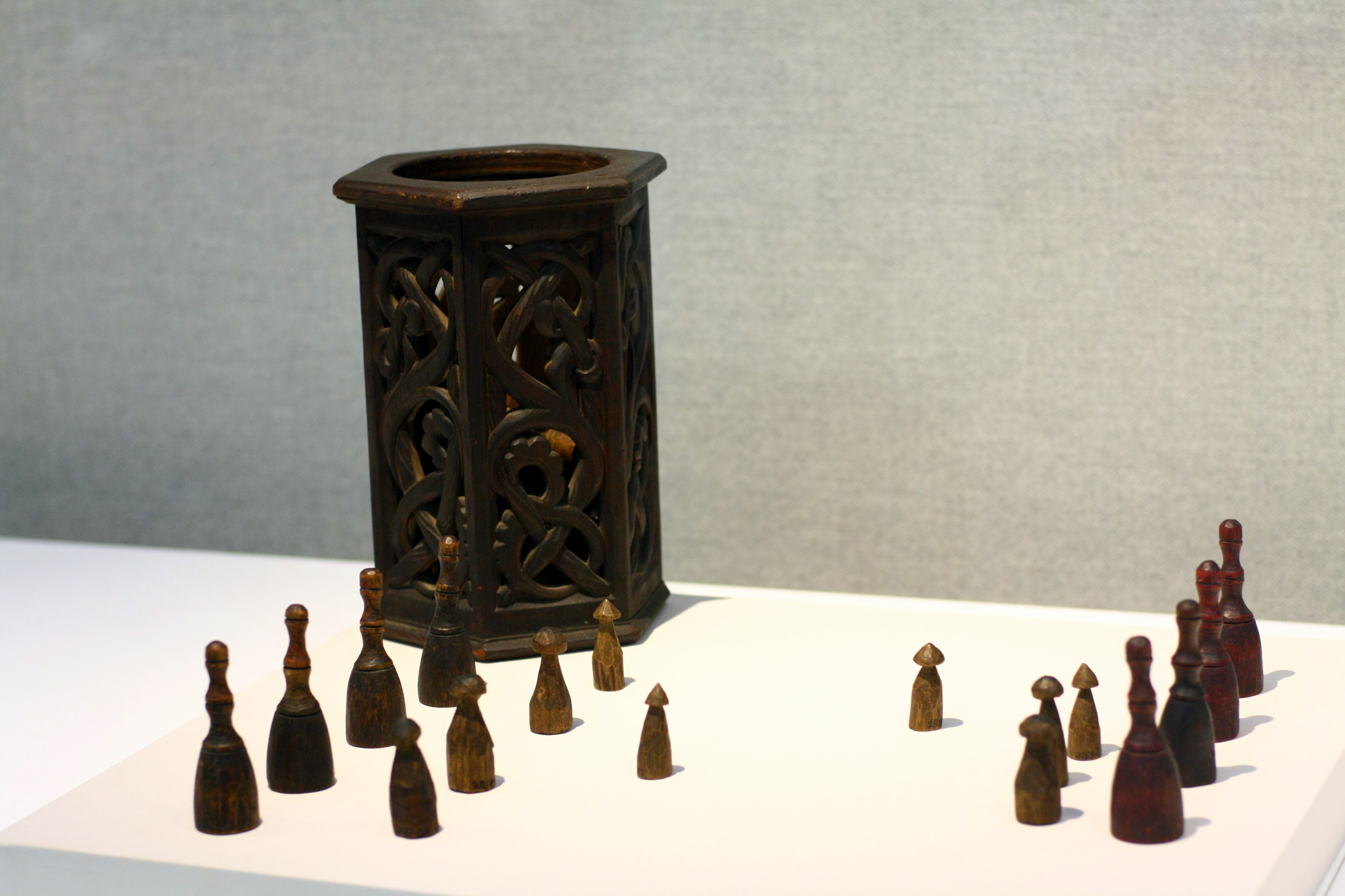 Ssangnyuk, the Korean traditional game